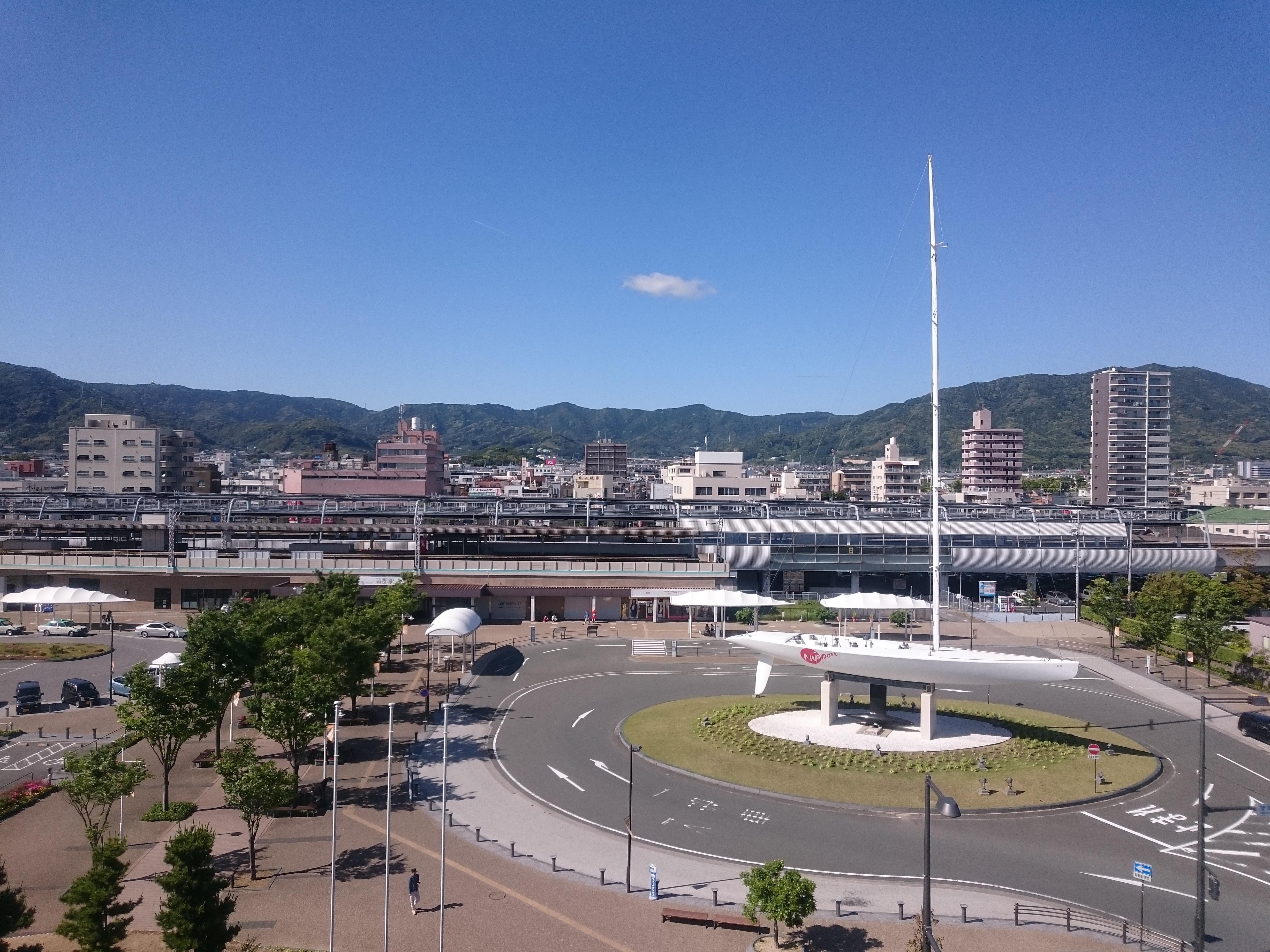 Gamagori Station (蒲郡駅), located in Gamagori, Aichi, Japan Sony Xperia Z3